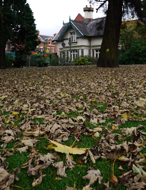 Autumn leaves, Drumglass Park Fallen leaves in Drumglass Park in south Belfast.